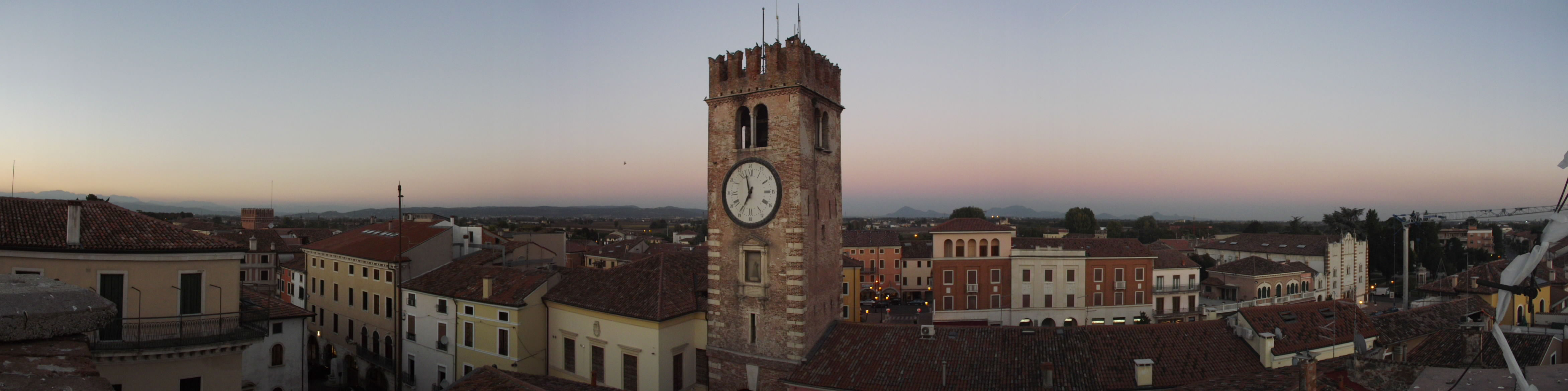 landscape of Cologna Veneta with clock tower